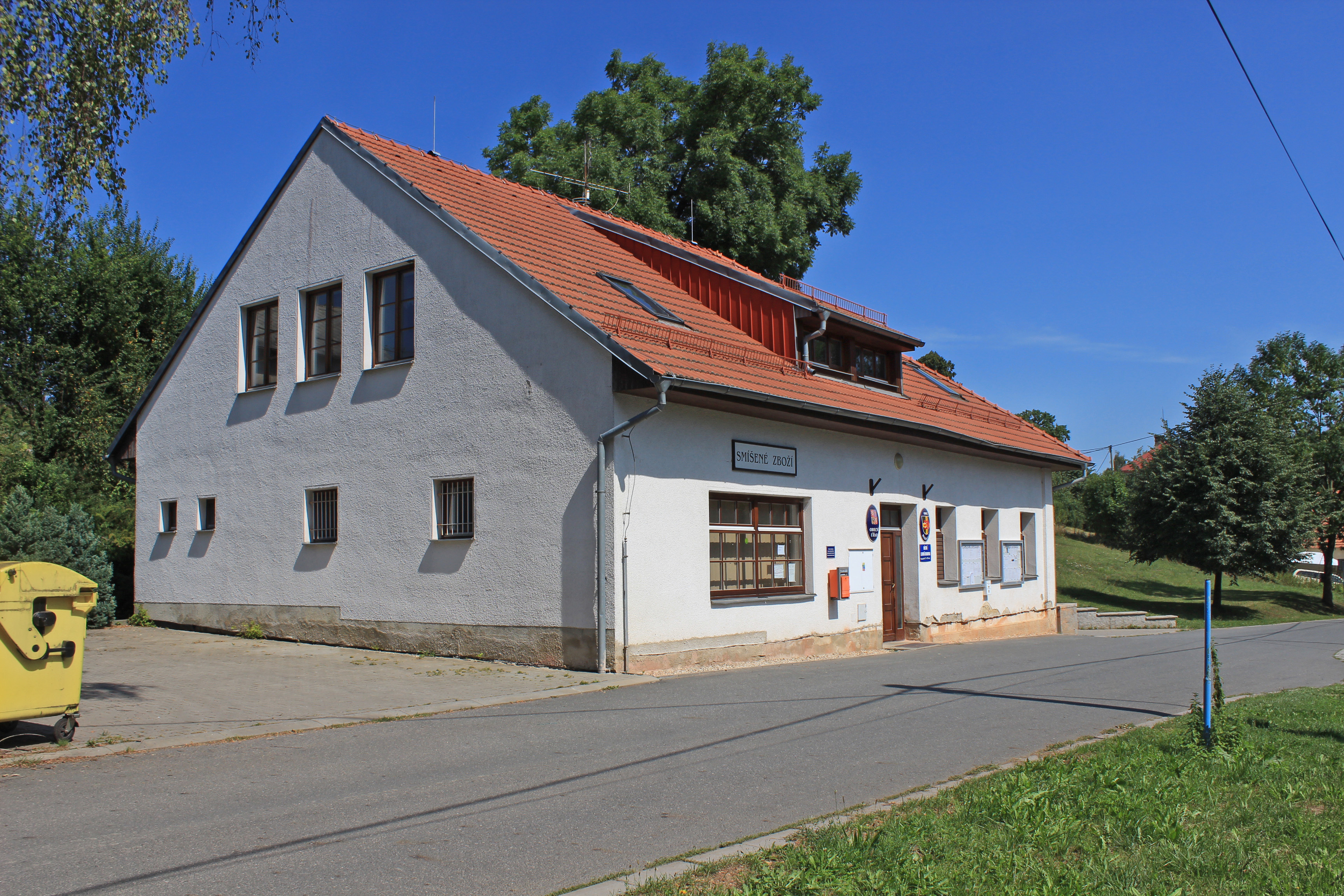 Municipal office in Mikuleč, Czech Republic.